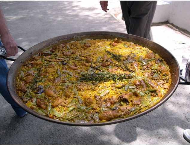 paella